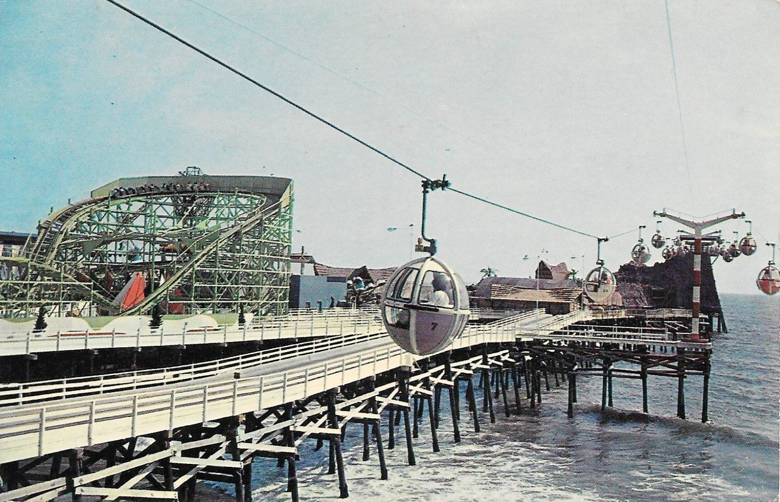 Postcard photo of The Sky Ride at Pacific Ocean park, Santa Monica, California.